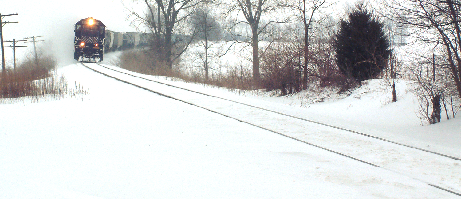 A north-bound freight train with an unidentified locomotive approaches the small town of South Raub in Tippecanoe County, Indiana.